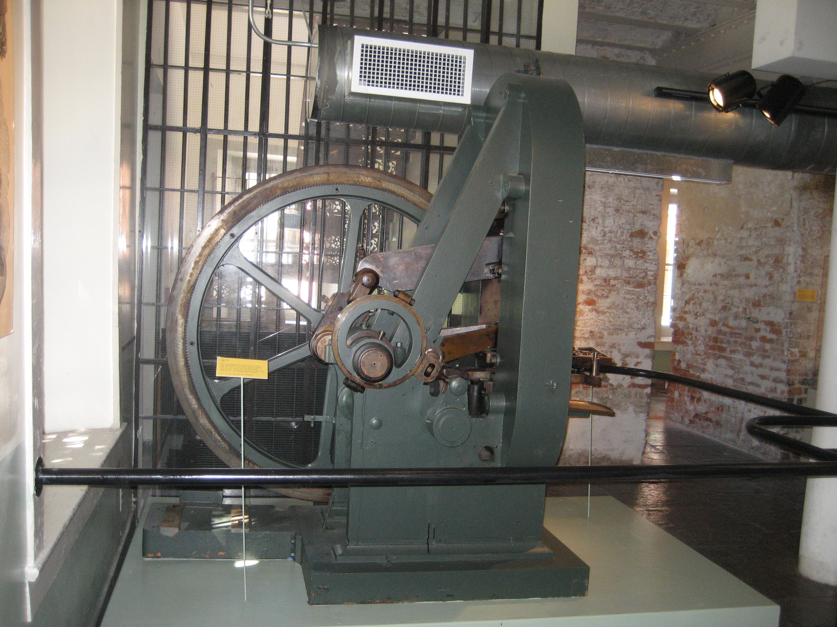 Old New Orleans Mint, now a museum. 19th century coin press from 1860s.